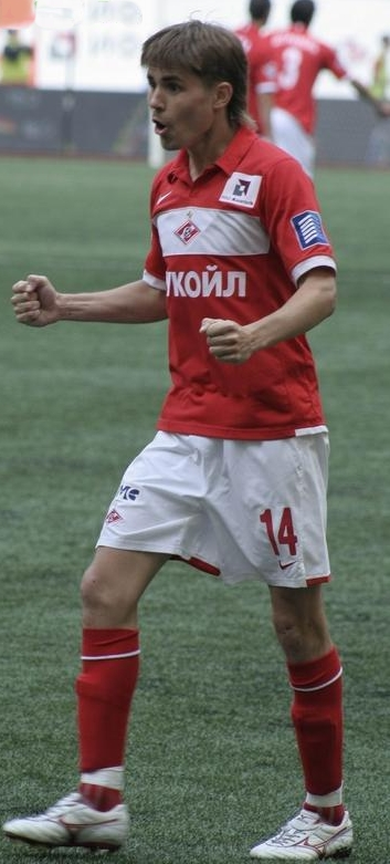 Dmitri Torbinski as a player of FC Spartak Moscow